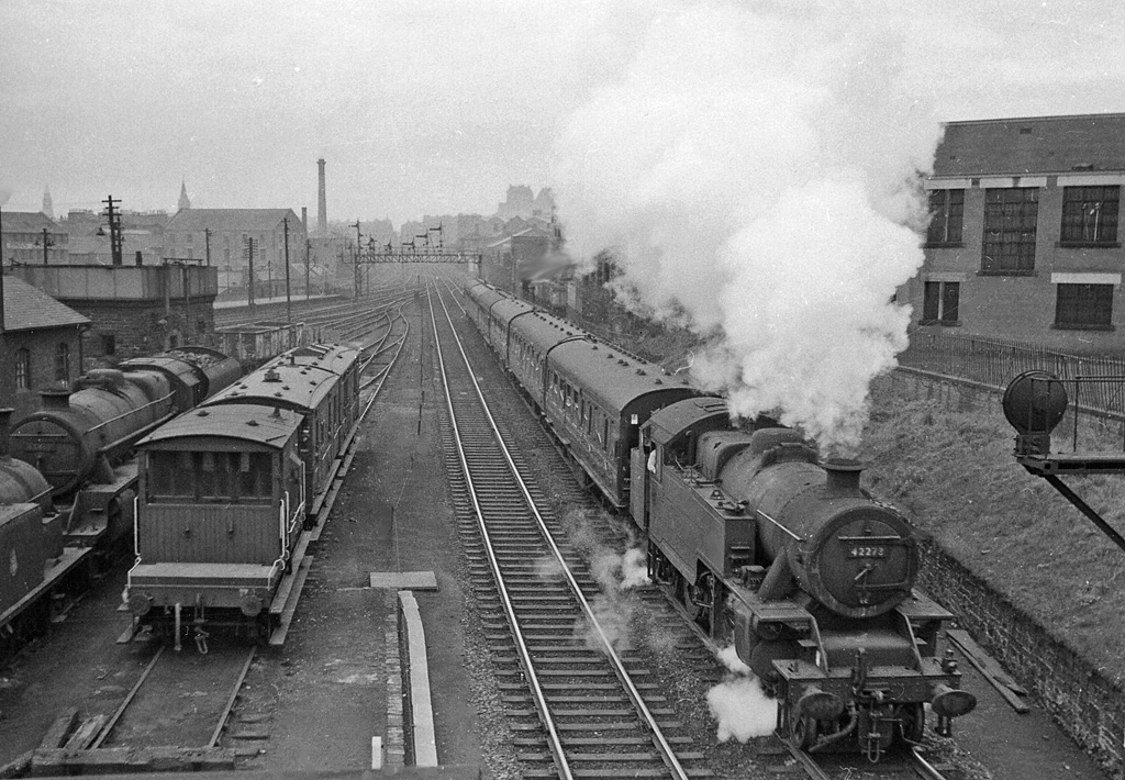 Up empty stock train for Princes Street Station, passing Dalry Road Locomotive Depot. View SW, towards Carstairs etc.; ex-Caledonian Carstairs - Edinburgh Princes Street main line, which was closed on 6/9/65 from Slateford Junction and the trains diverted to Waverley via Haymarket, the Depot being closed on 3/10/65. (Dalry Road station was off to the left, on the Leith North Branch). The train is headed by LMS-type 4MT 2-6-4T No. 42273.